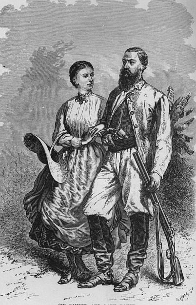 Samuel (1821-1893) & Lady Florence Baker (1841 - 1916), Explorer of Africa with Sir Samuel White Baker